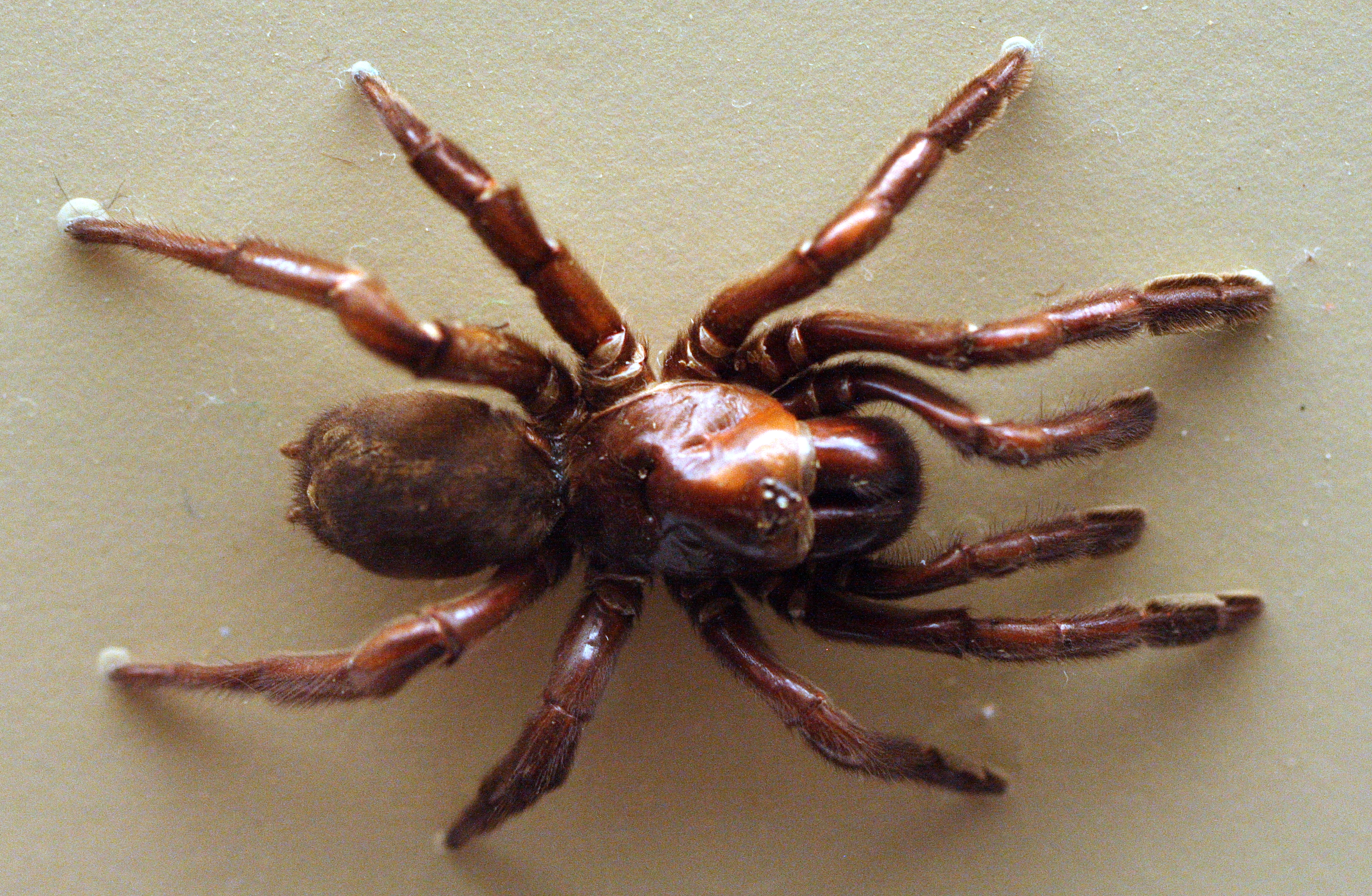 Specimen in the Australian Museum spider display.